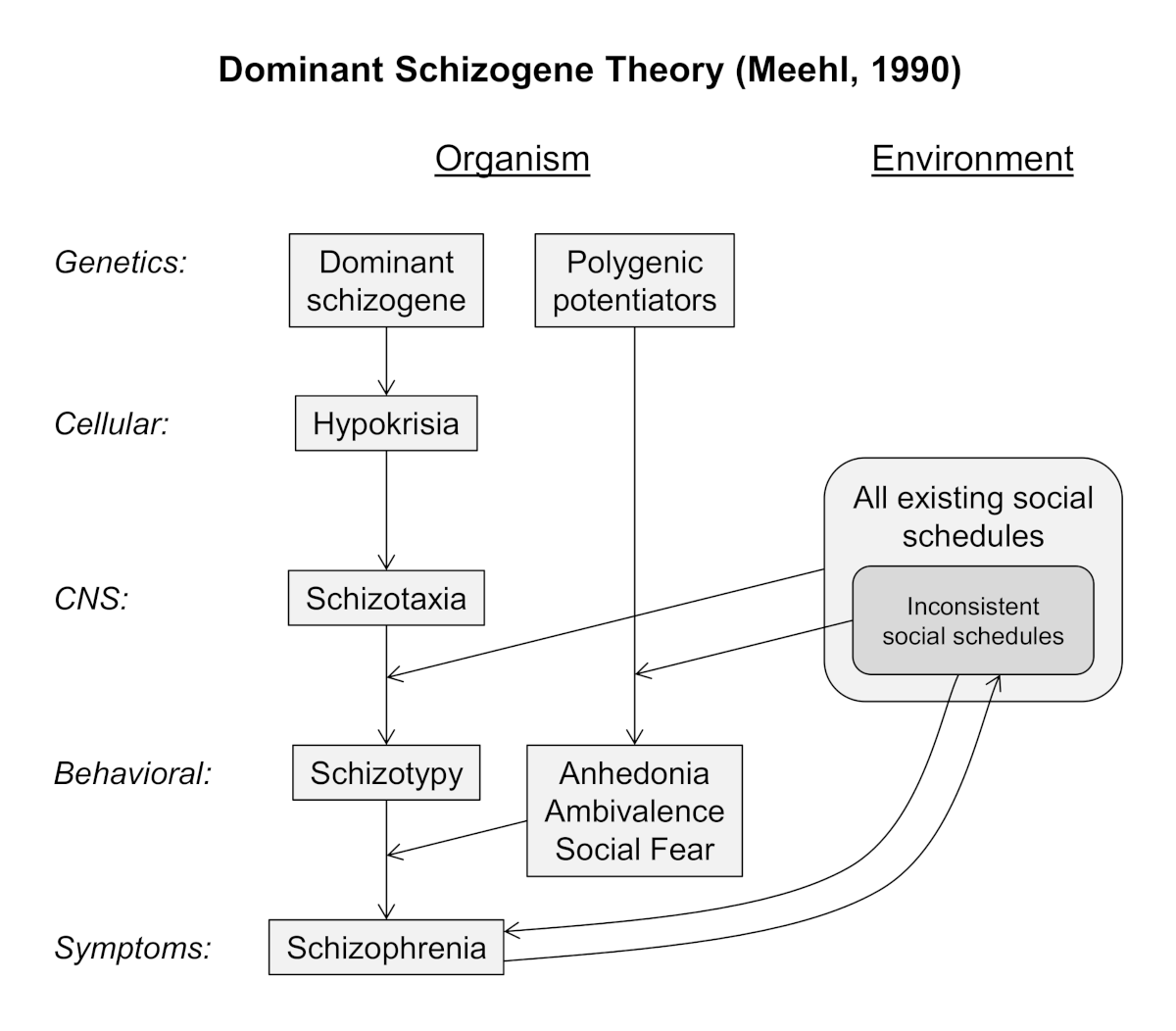 Graphical overview of Paul Meehl's dominant schizogene theory, and his proposed connections between the schizogene, hypokrisia, schizotaxia, schiztypy, and schizophrenia. (See Meehl PE, 1962, 1989, 1990)